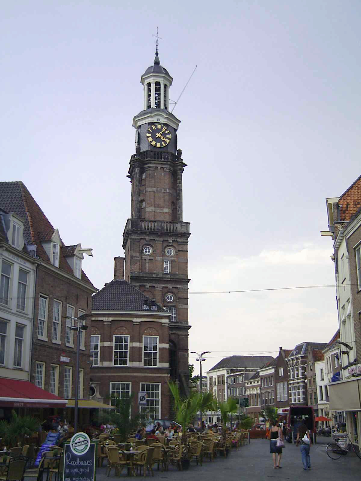 Wijnhuistower in Zutphen on a summersday